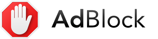 AdBlock Logo